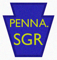 Pennsylvania State Guard Patch